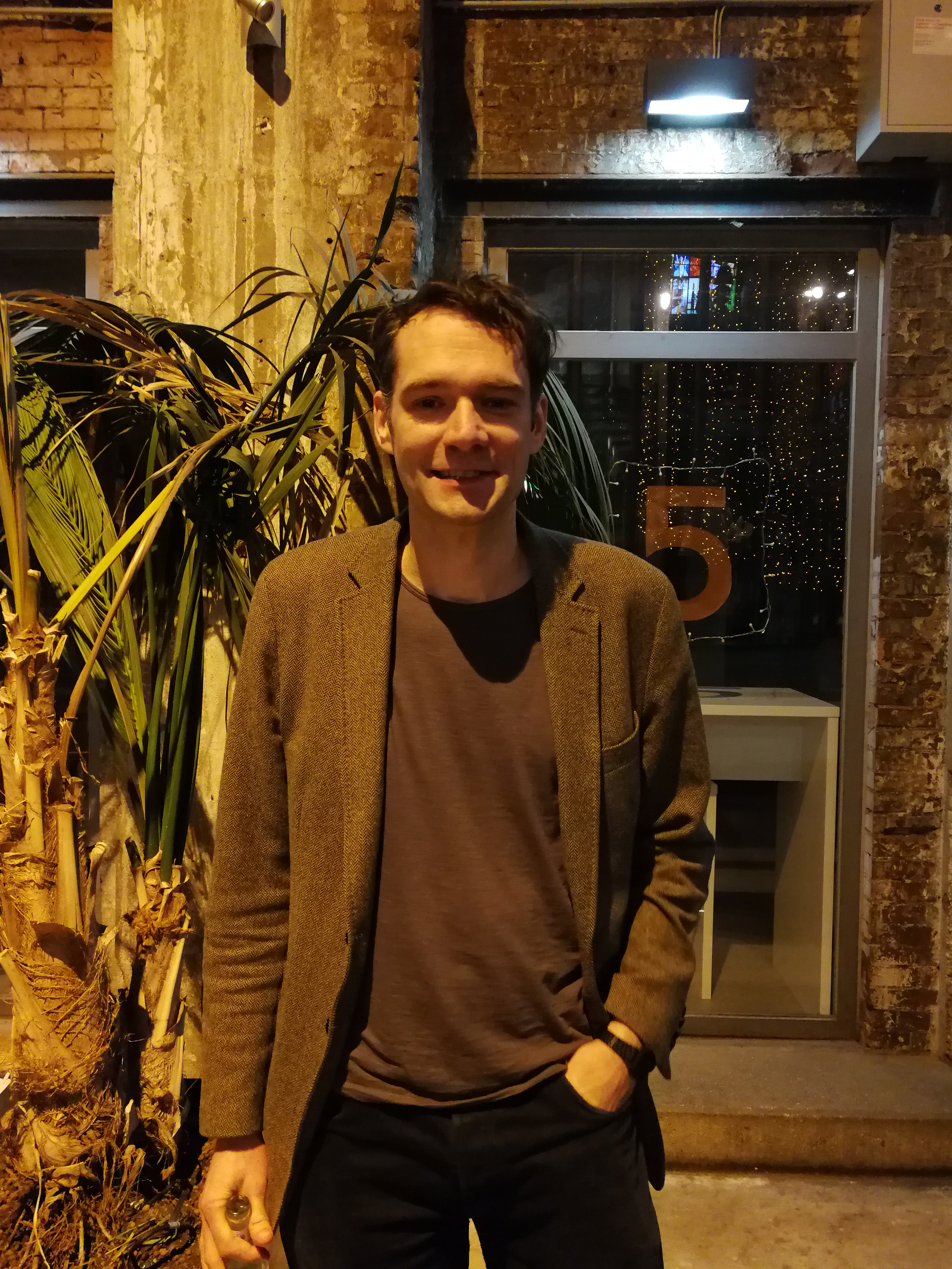 Tilman Birr, Singer Slam January 2020, Zeise cinema, Hamburg/Germany Jan 3, 2020.